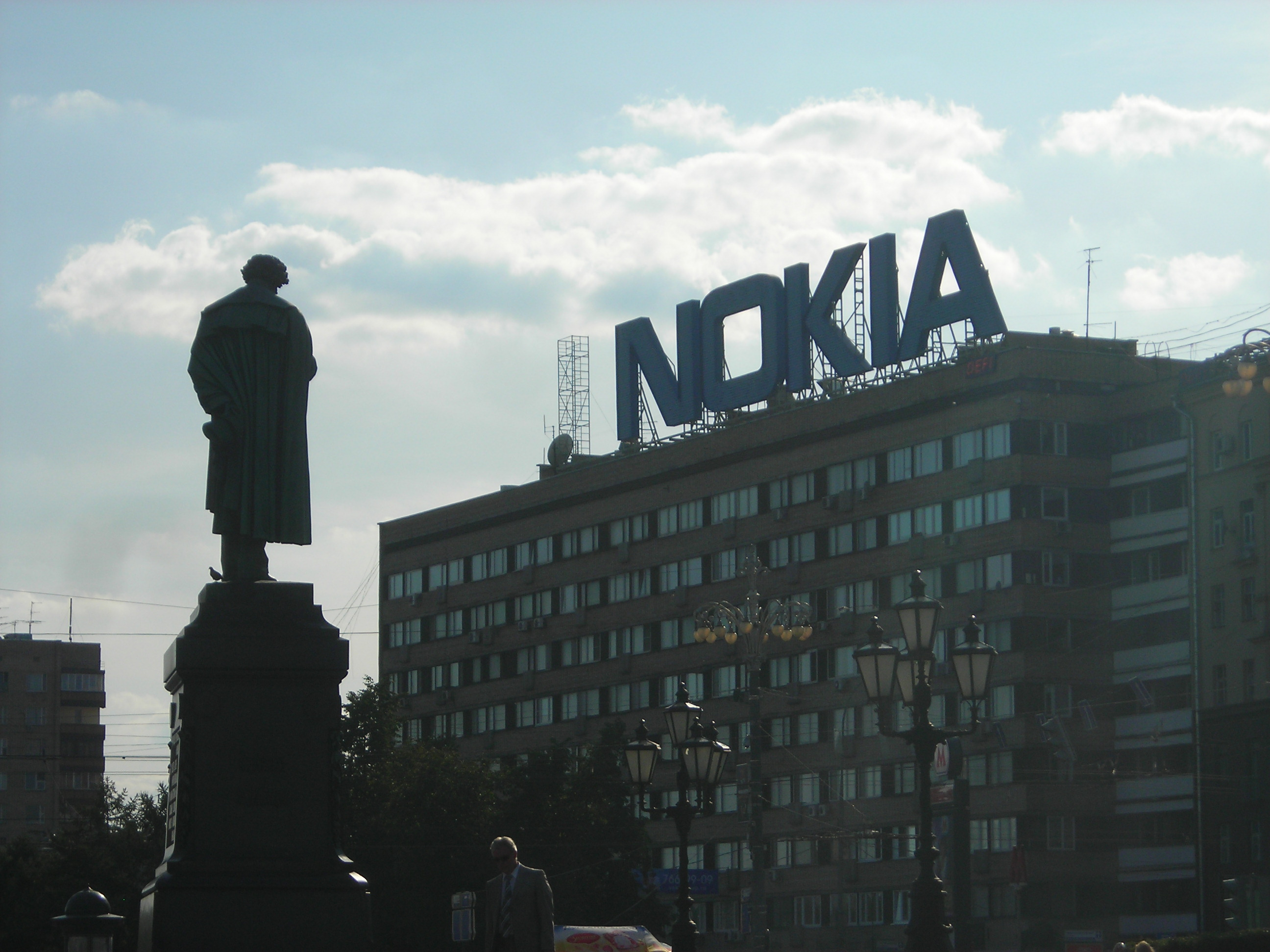 Monument of Pushkin with large NOKIA sign, Pushkinskaya, Moscow, Russia